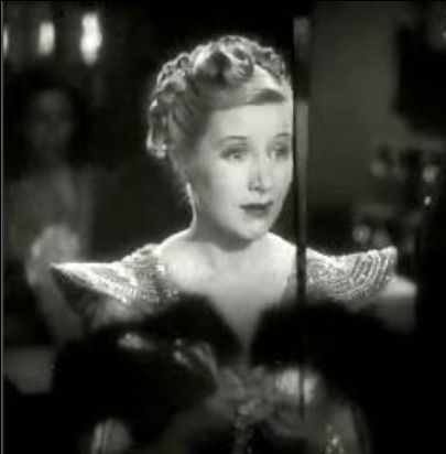 Cropped screenshot of Genevieve Tobin from the film Dramatic School